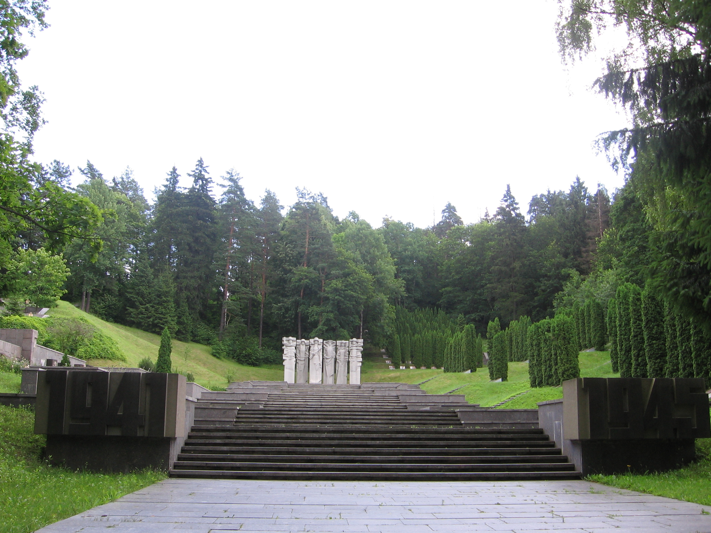 Memorial to Soviet soldiers in Vilnius, established in 1951. Monument built in 1984. Authors:sculptor Juozas Burneika, architect Rimantas Dičius.